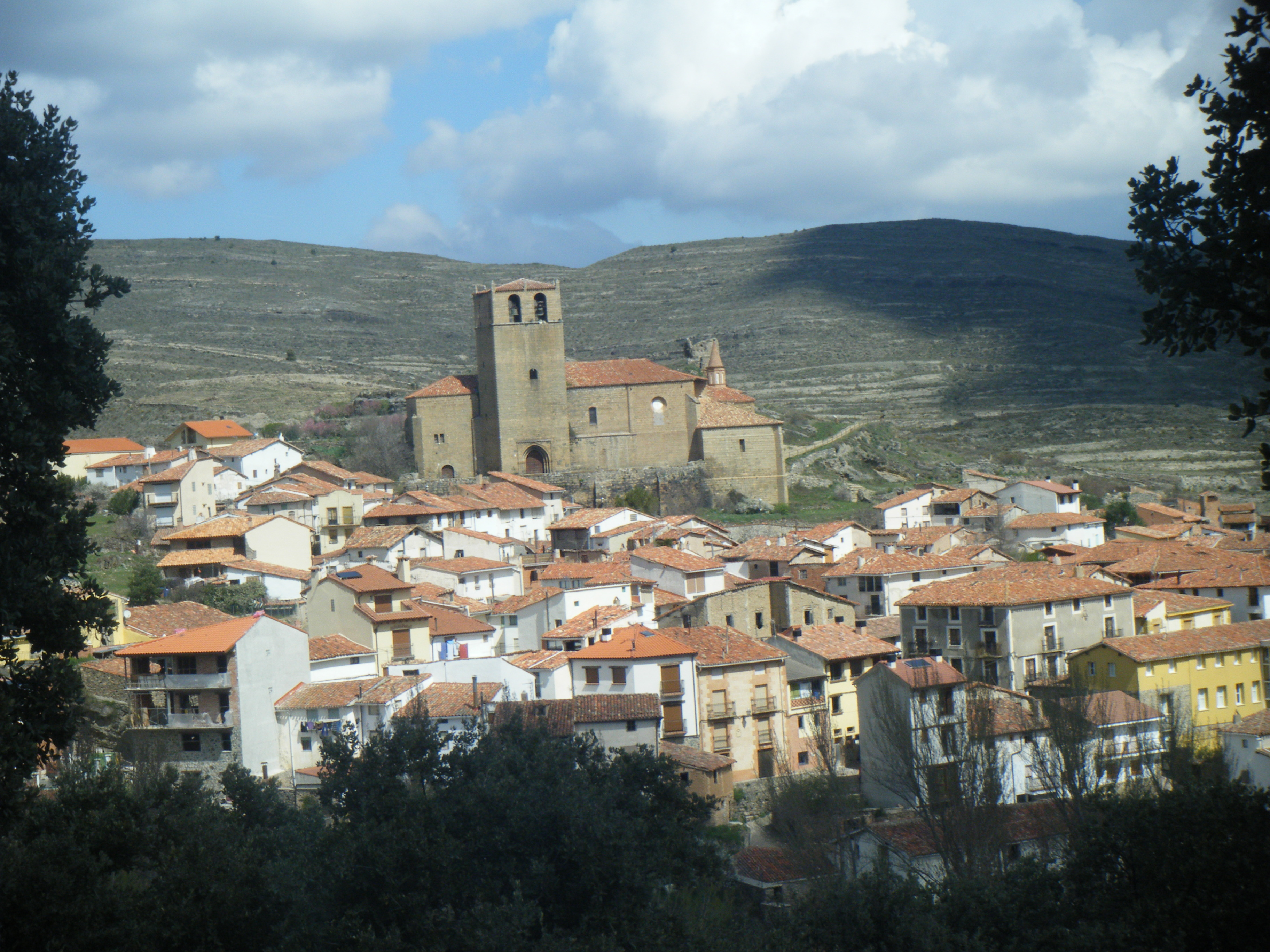 General view of Enciso village in La Rioja, Spain. Larges building, in the background is Iglesia de Santa María de la Estrella church.